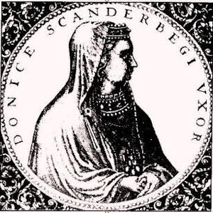 Donika Kastrioti. Engraving from 1596.